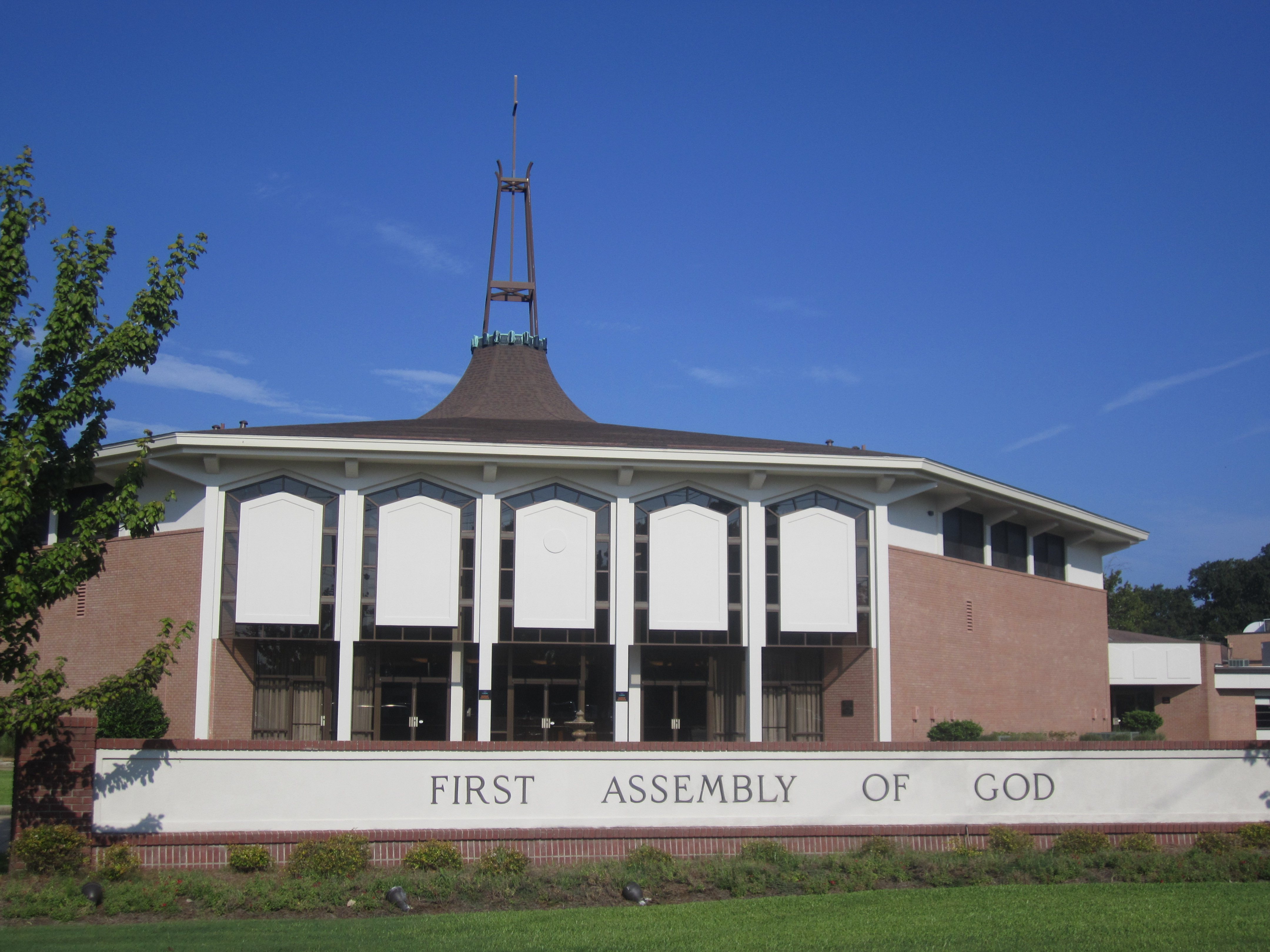 I took photo in West Monroe, LA, with Canon camera.